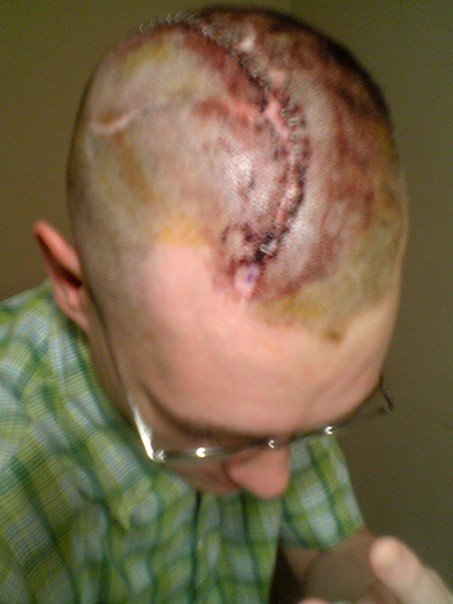 Post-cranioplasty